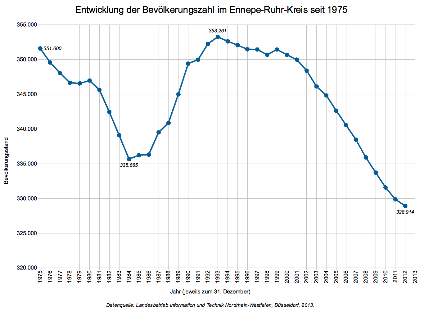 Population statistics for the German district Ennepe-Ruhr-Kreis from 1975 to 2012